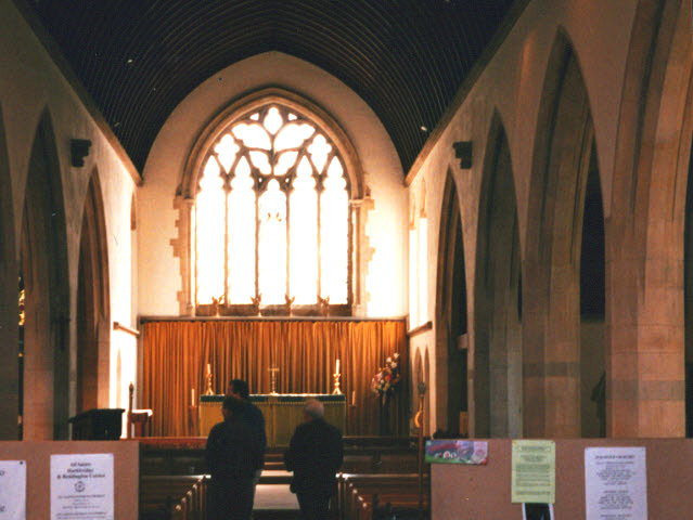 All Saints church, Hackbridge: interior The parish church of Hackbridge and Beddington Corner was built in 1931. The architect was H.P. Burke-Downing, and it is not listed.